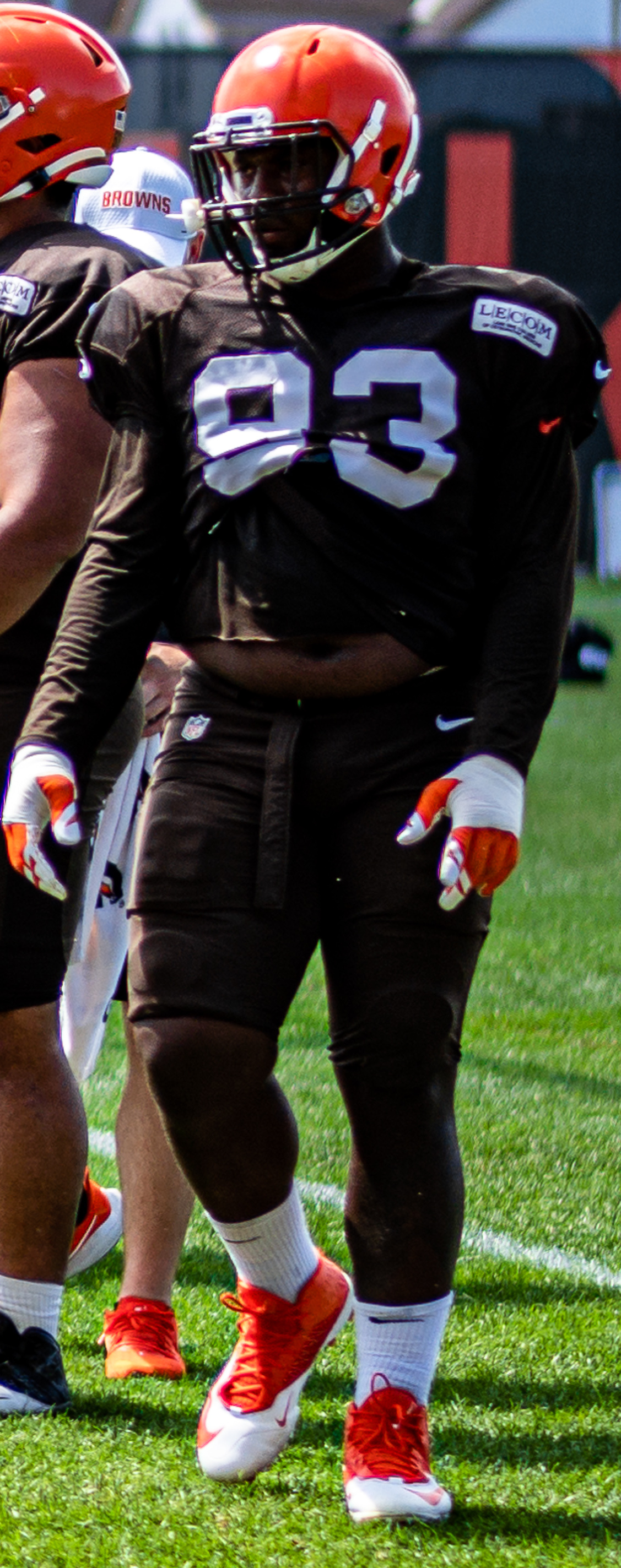 2019 Cleveland Browns Training Camp